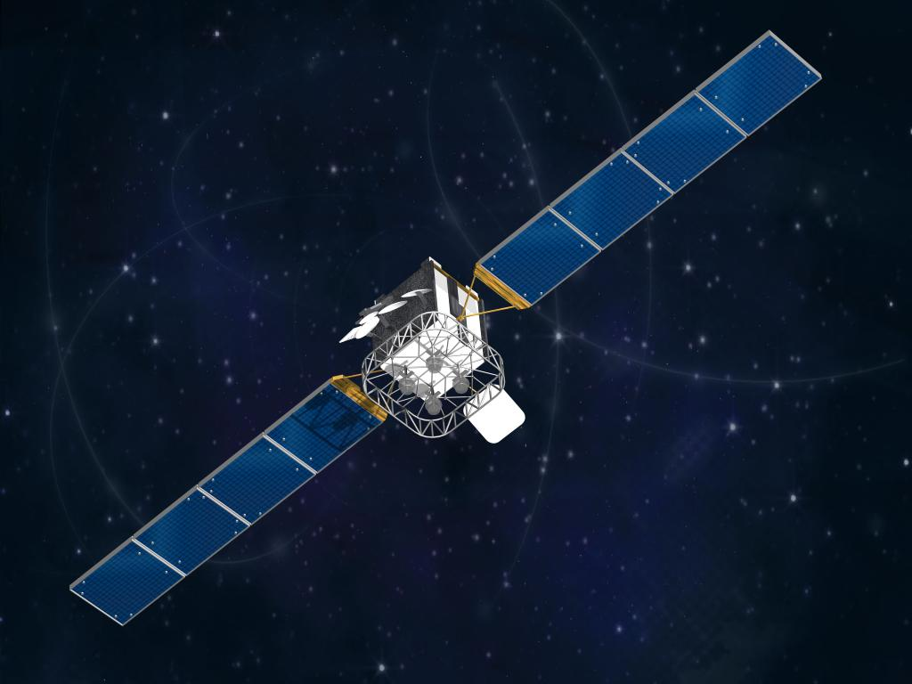 UFO satellite